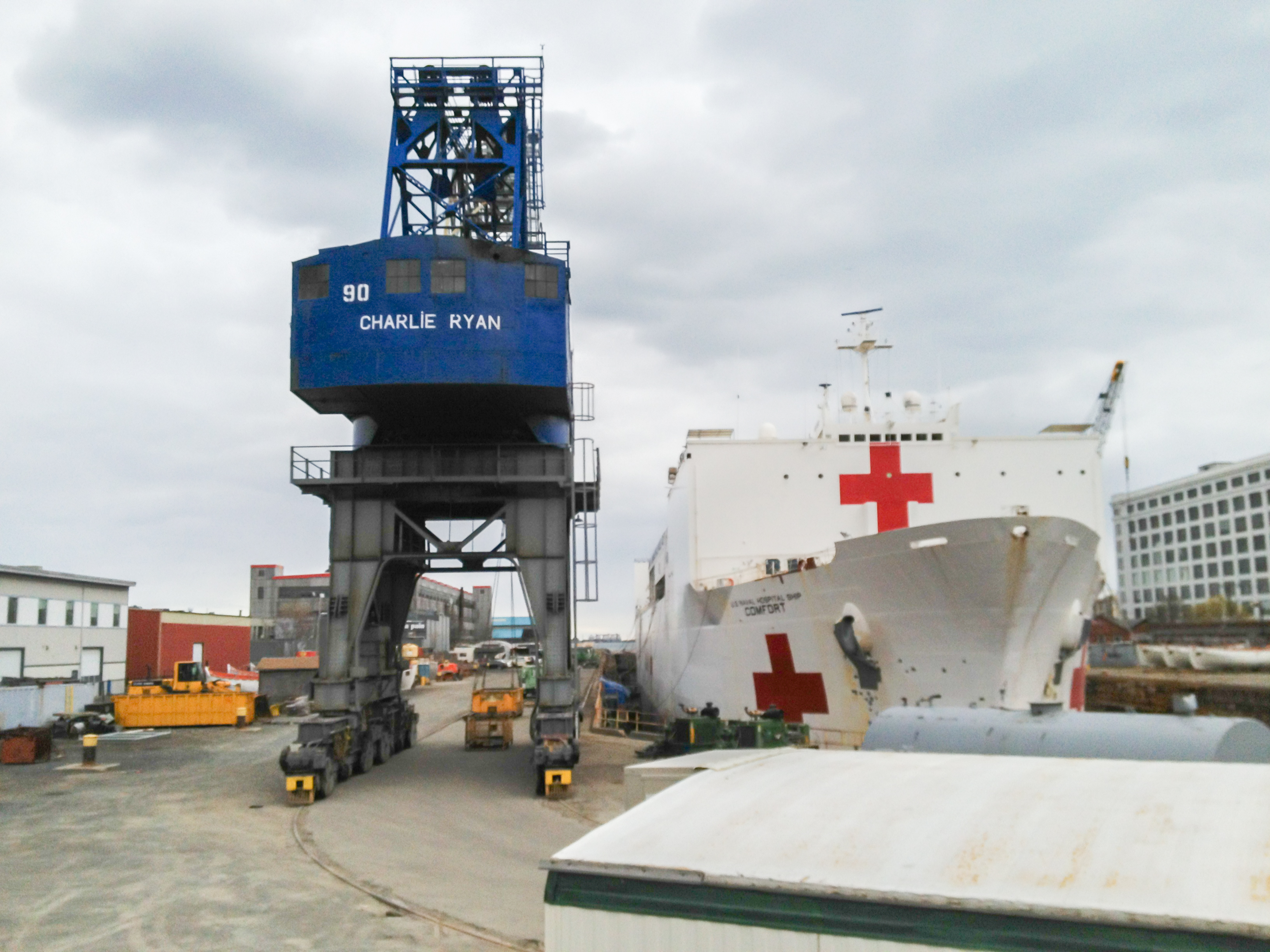 US Naval Hospital Ship Comfort (T-AH-20) in Boston's Dry Dock Number 3 at the former South Boston Naval Annex